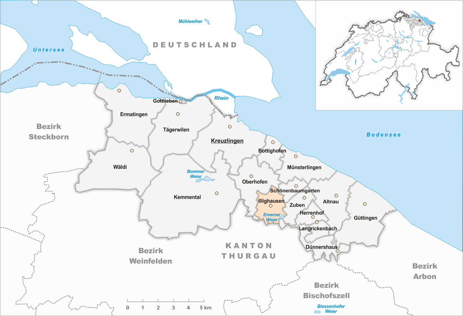 Municipality Illighausen